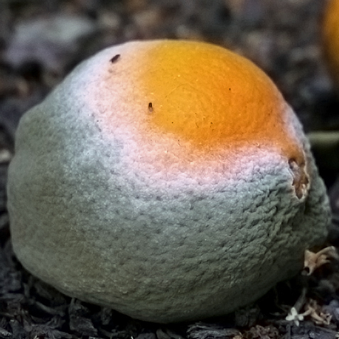 Blue mold of citrus (Penicillium digitatum) colonizing an orange fallen from a tree in Mountainview, California (James Scott)